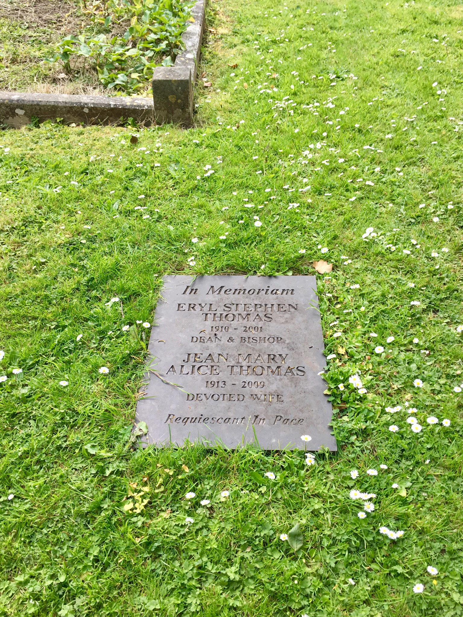 Graves in Llandaff churchyard, May 2020